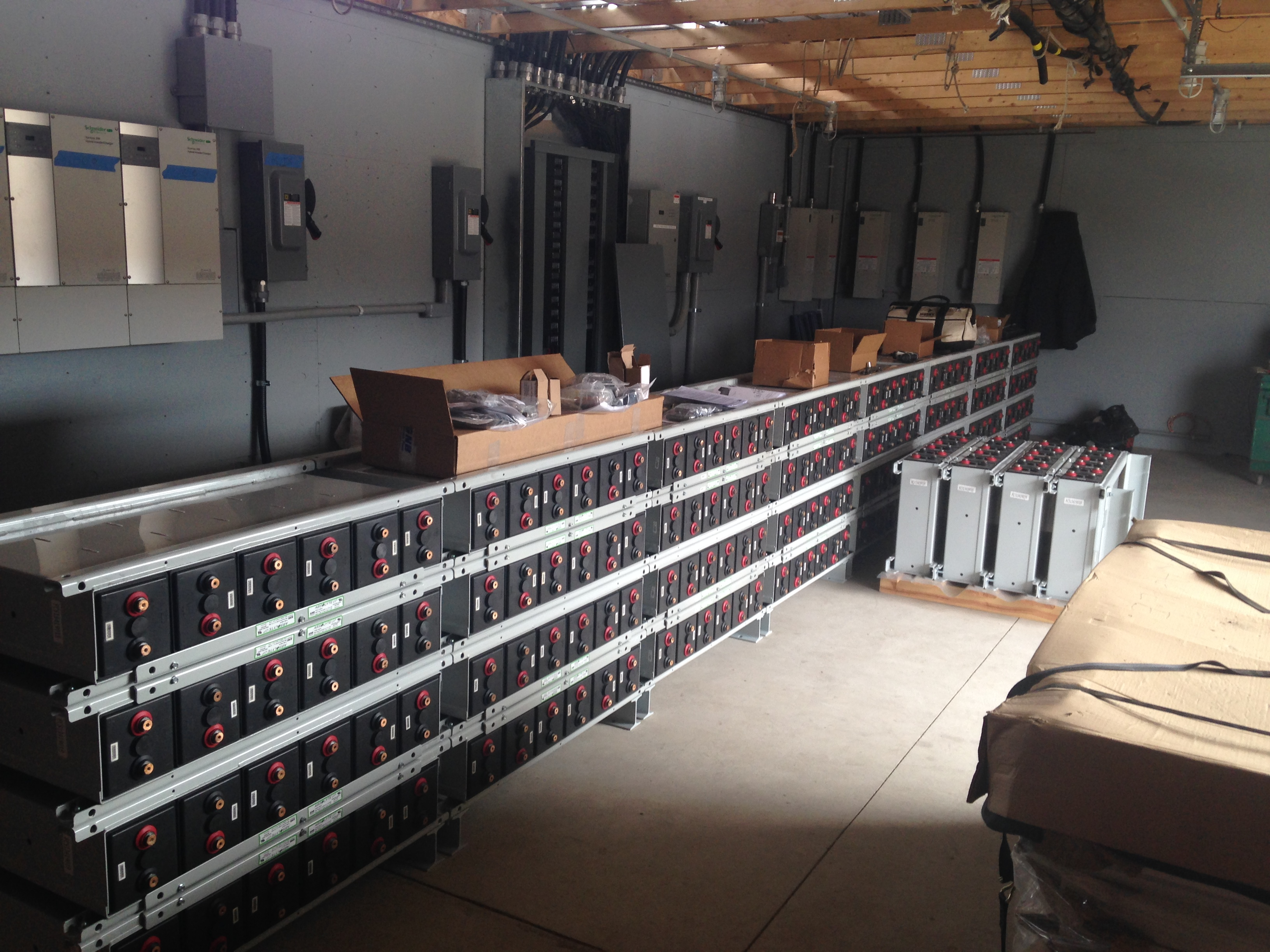 Sealed absorbed glass mat batteries at Shoals Marine Lab for photovoltaic power collection.